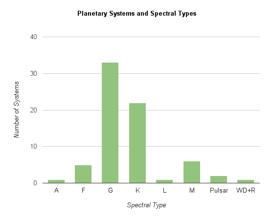 This is a graph of which types of stars have been identified to collectively hold the most planetary systems.